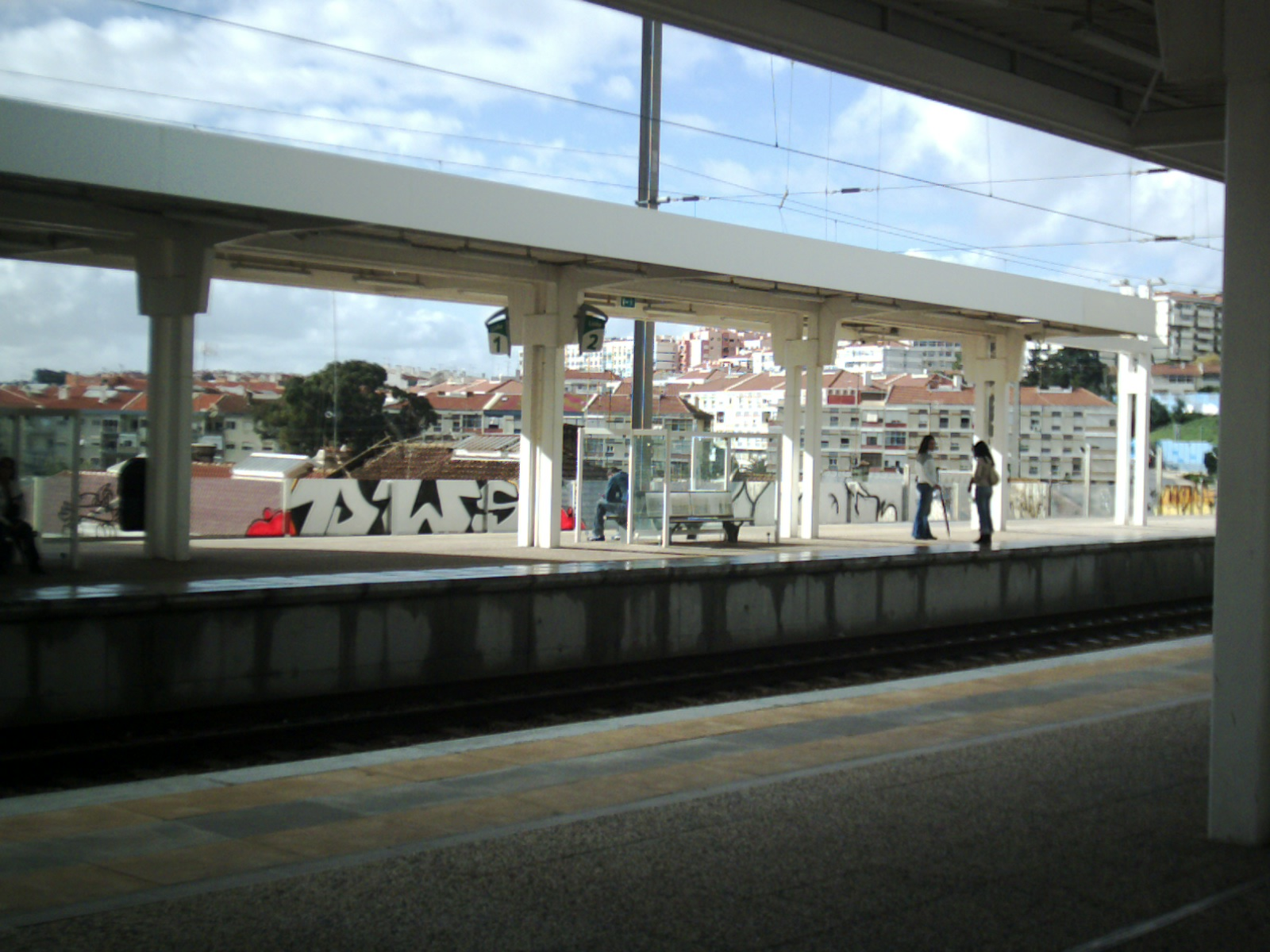 Part of a series of pictures about the train station of Queluz-Belas. Two pretty girls in the distance.